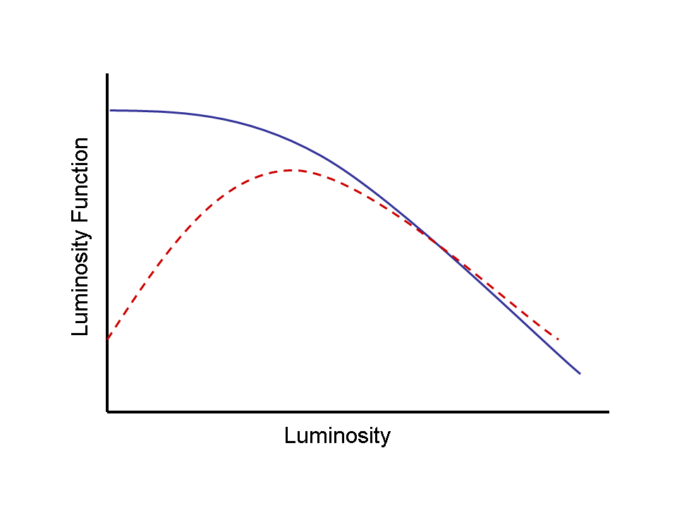 example luminosity functions